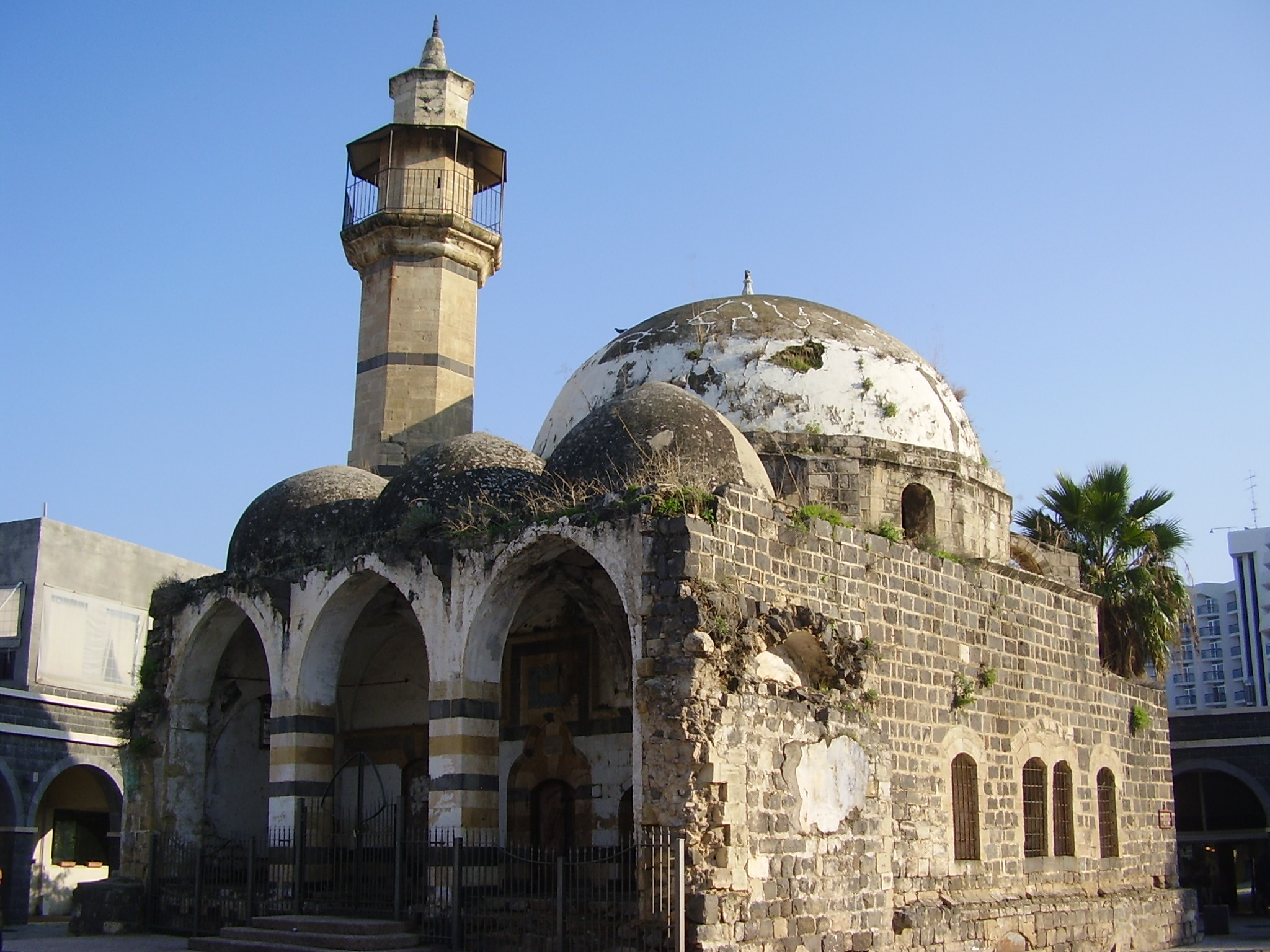 al omari mosque in tiberias